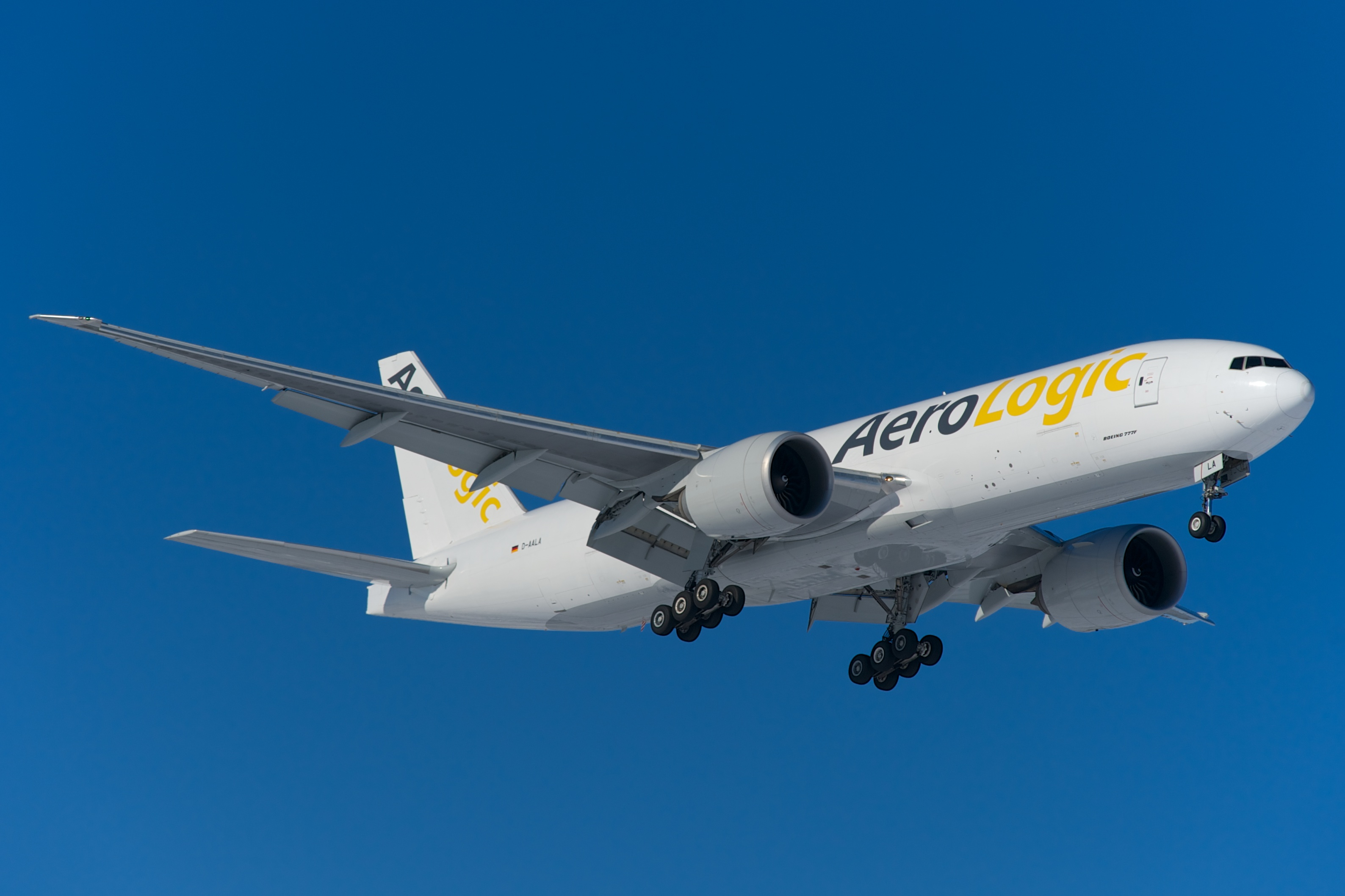 A very bright, sunny, YYZ morning